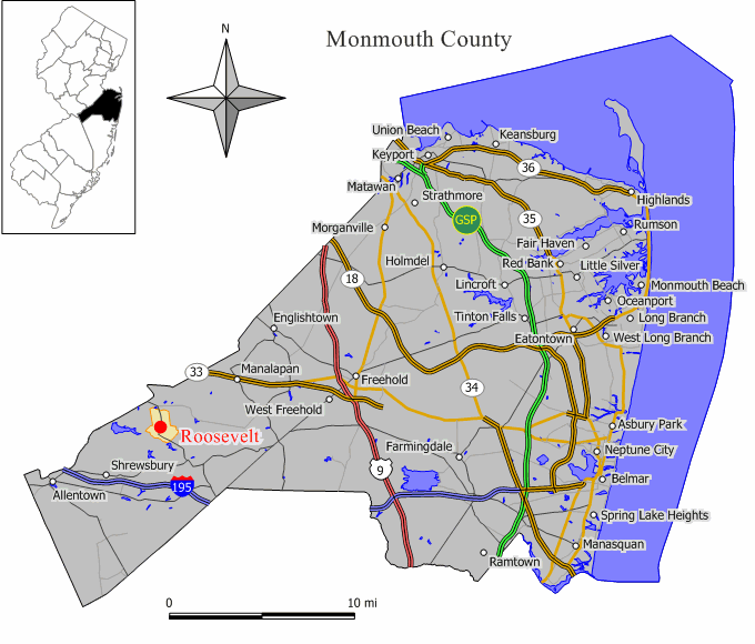 Source: Jim Irwin